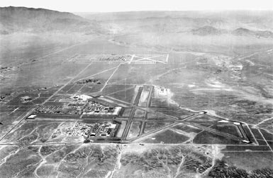 Aerial photo of Sandia and Kirtland Air Force Bases